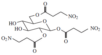 Karakin structure